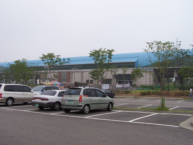 Korean National Railroad Ansan line Gojan station